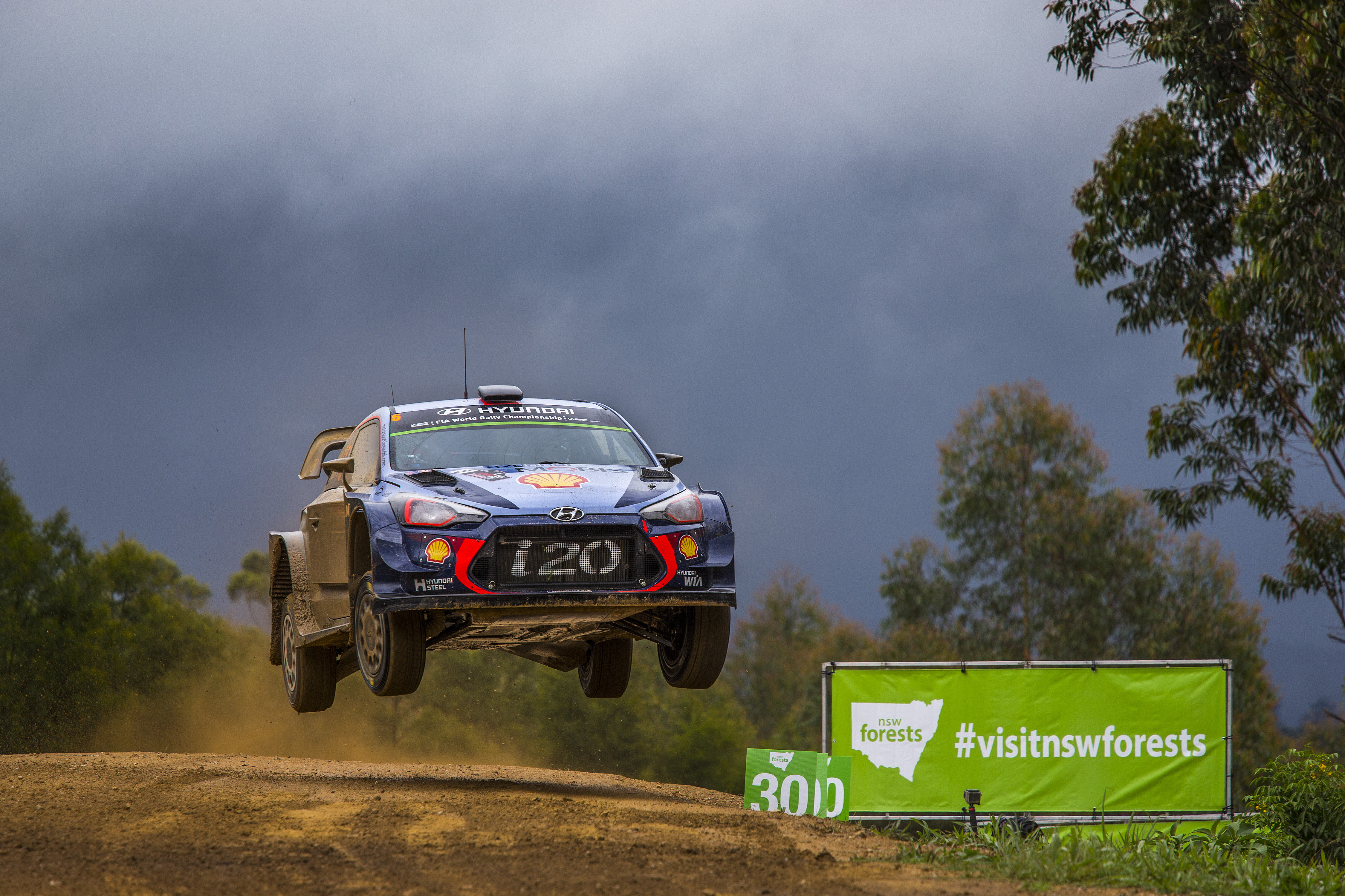 2017 FIA World Rally Championship Round 13, Rally Australia 16 - 19 November 2017 Thierry Neuville, Nicolas Gilsoul, Hyundai i20 Coupe WRC Photographer: Sarah Vessely Worldwide copyright: Hyundai Motorsport GmbH